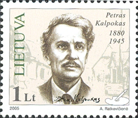 Stamps of Lithuania, 2005